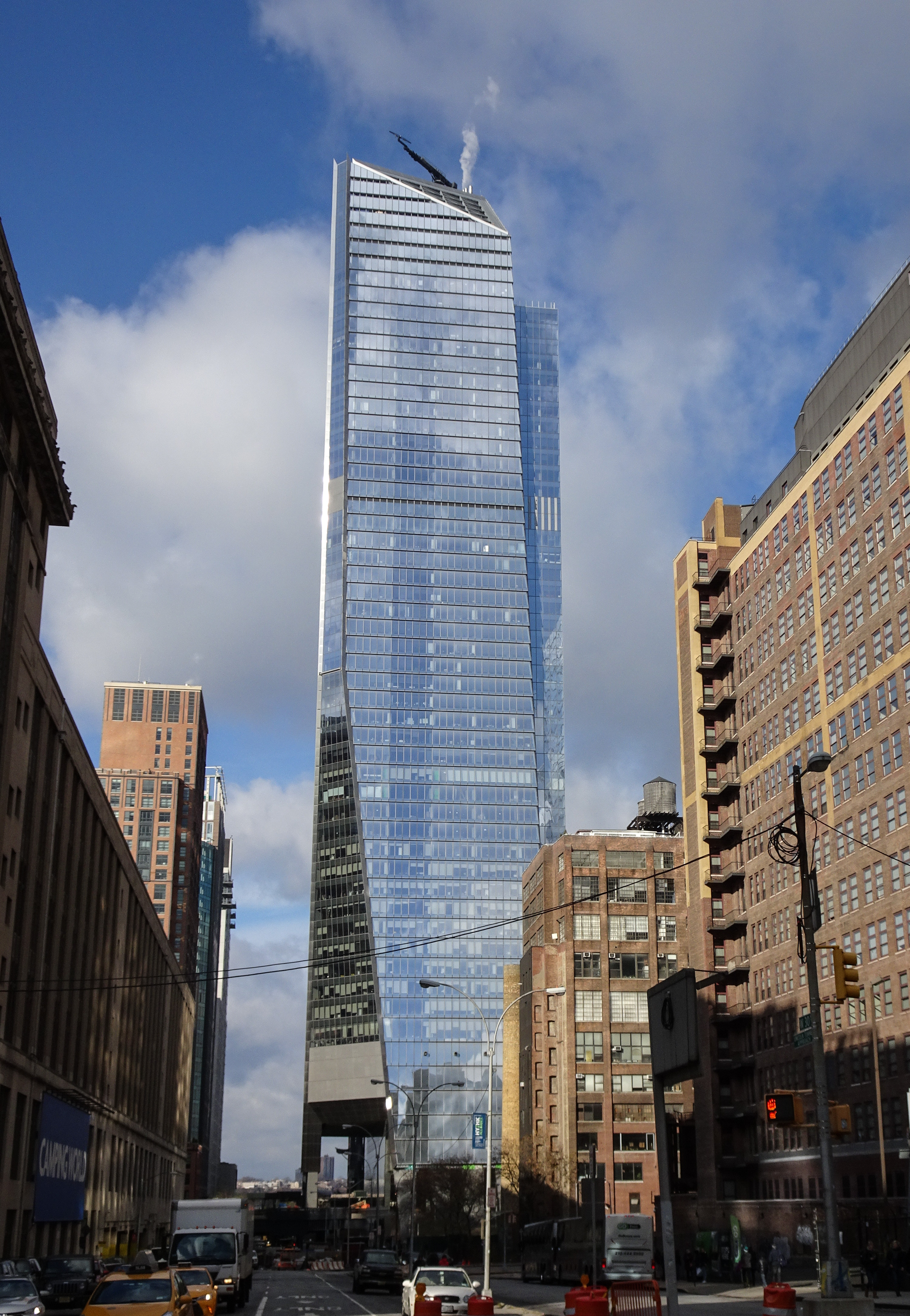 Looking west along 30th Street at completed skyscraper